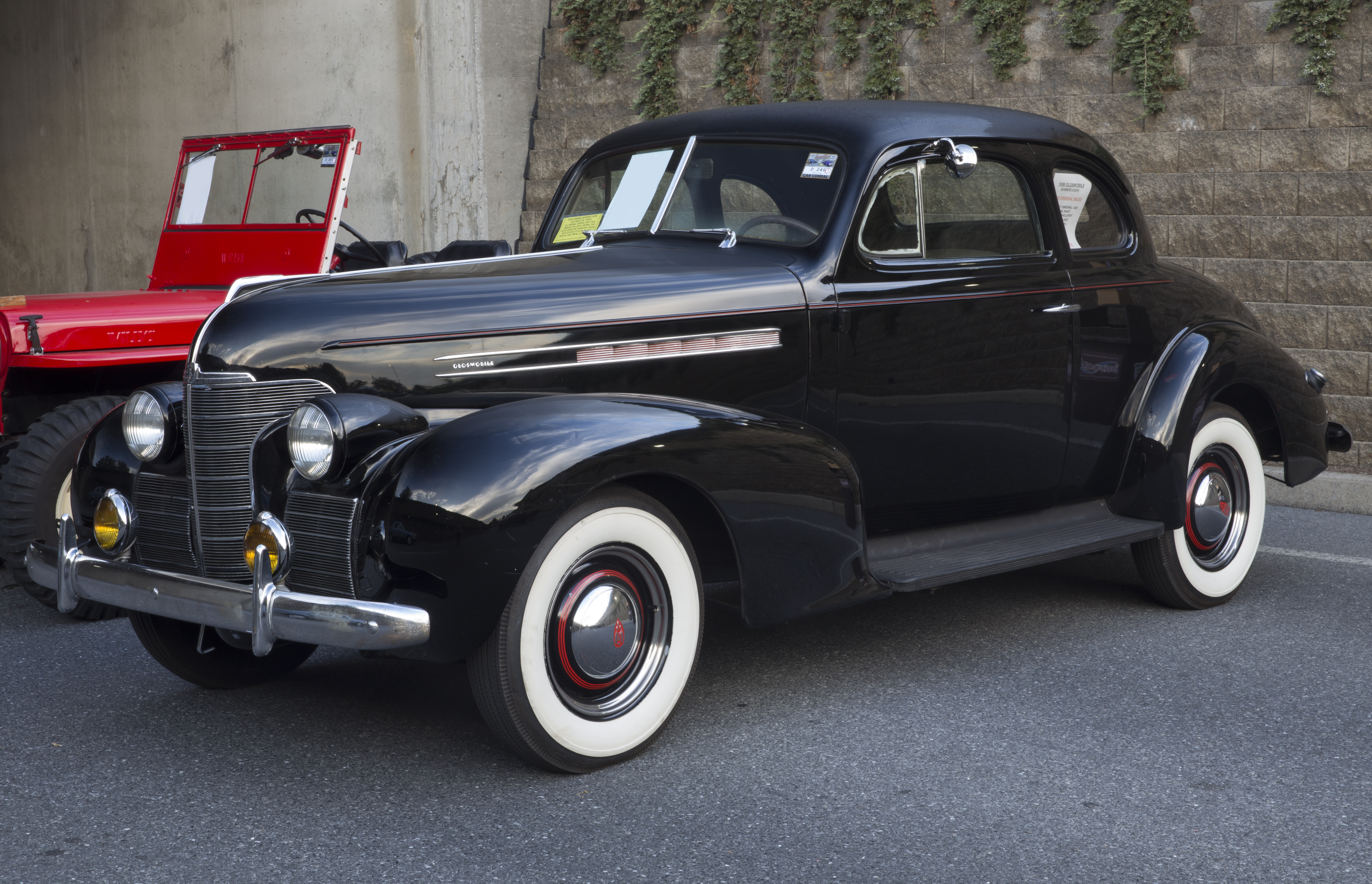 A 1939 Oldsmobile Series 60 Business Coupe offered for sale at Hershey 2019. Black with Derby Grey interior, 29,000 original miles 216ci six and a three-speed manual transmission.